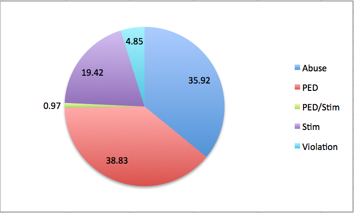 Most commonly abused substances in the MLB